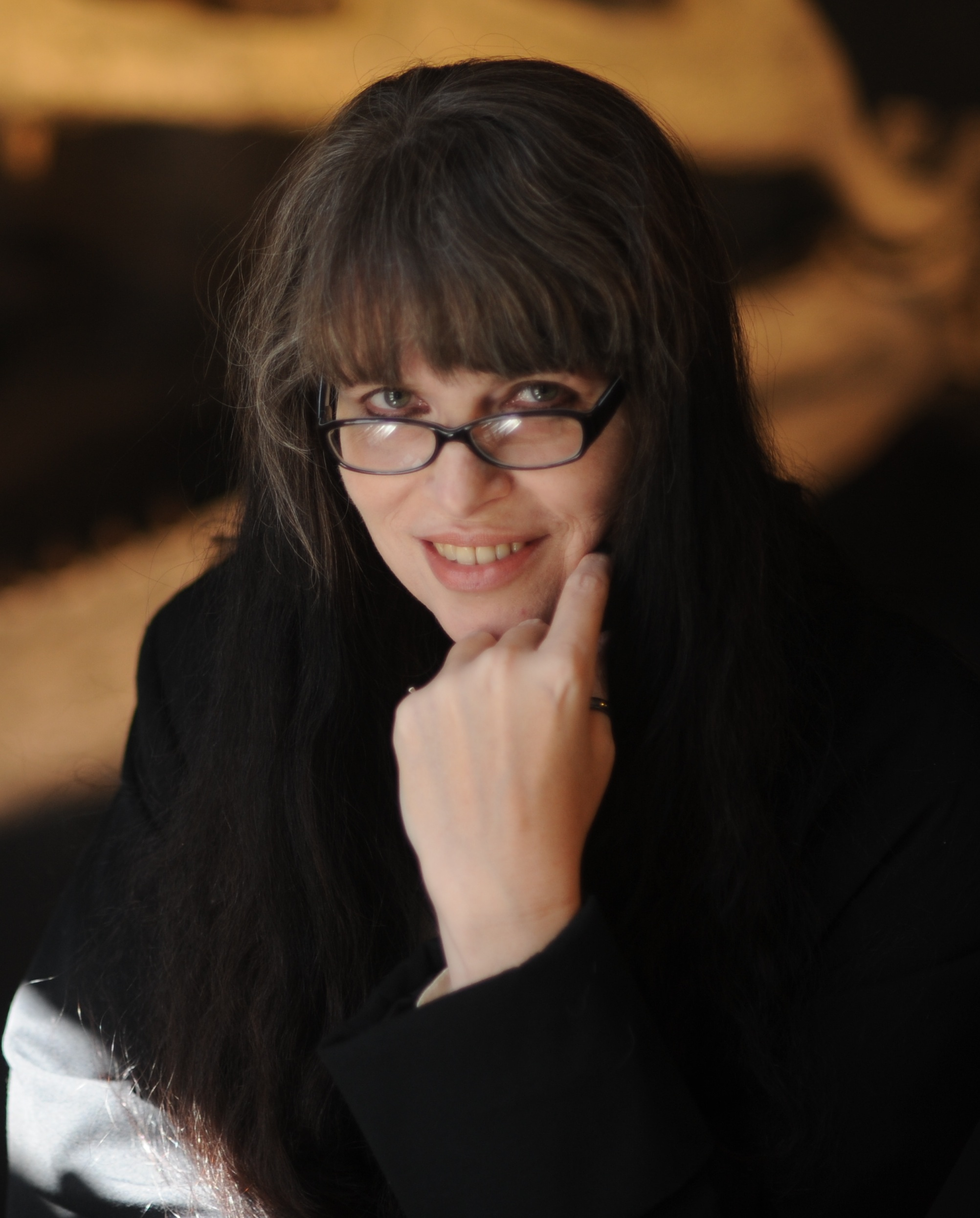 Caitlín R. Kiernan Licensing